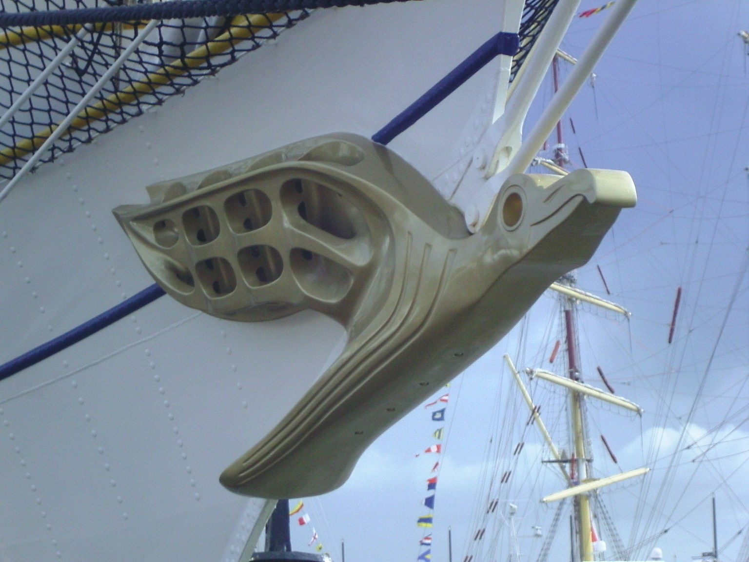 Figurehead of the sailing ship Gorch Fock (built in 1958) of the German navy